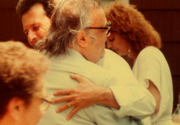 Attorney Bert Fields warmly embraces Mario Puzo, author of "The Godfather." On March 13, 2012 the estate of Mario Puzo filed a counterclaim against Paramount Pictures, who sued the estate to stop the author’s son, Anthony Puzo, from publishing a new sequel to his father’s classic Mafia saga, "The Godfather." The estate's attorney, Bert Fields was quoted as saying, “Mario Puzo brought vast wealth to Paramount at a time when they desperately needed it. Now that he’s gone, Paramount’s trying to deprive his children of the rights he specifically reserved. I promised Mario I’d protect his kids from this kind of reprehensible conduct. Paramount wanted a war, and they’re going to get one."